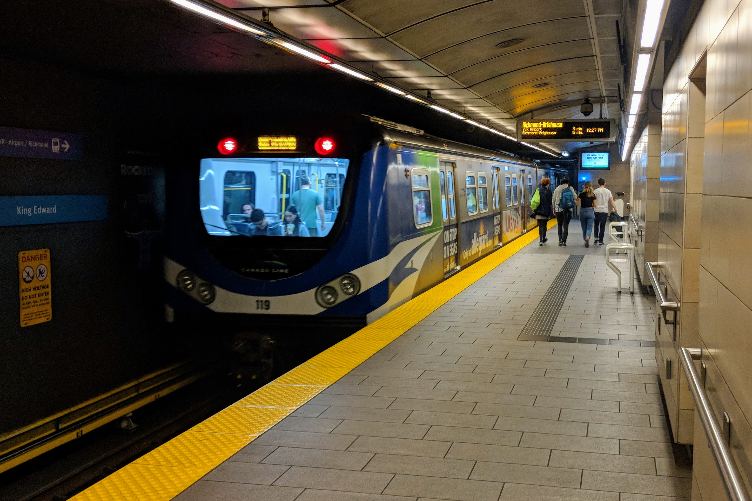 Platform level at King Edward station. A southbound train can be seen departing Platform 2, the lower outbound platform.